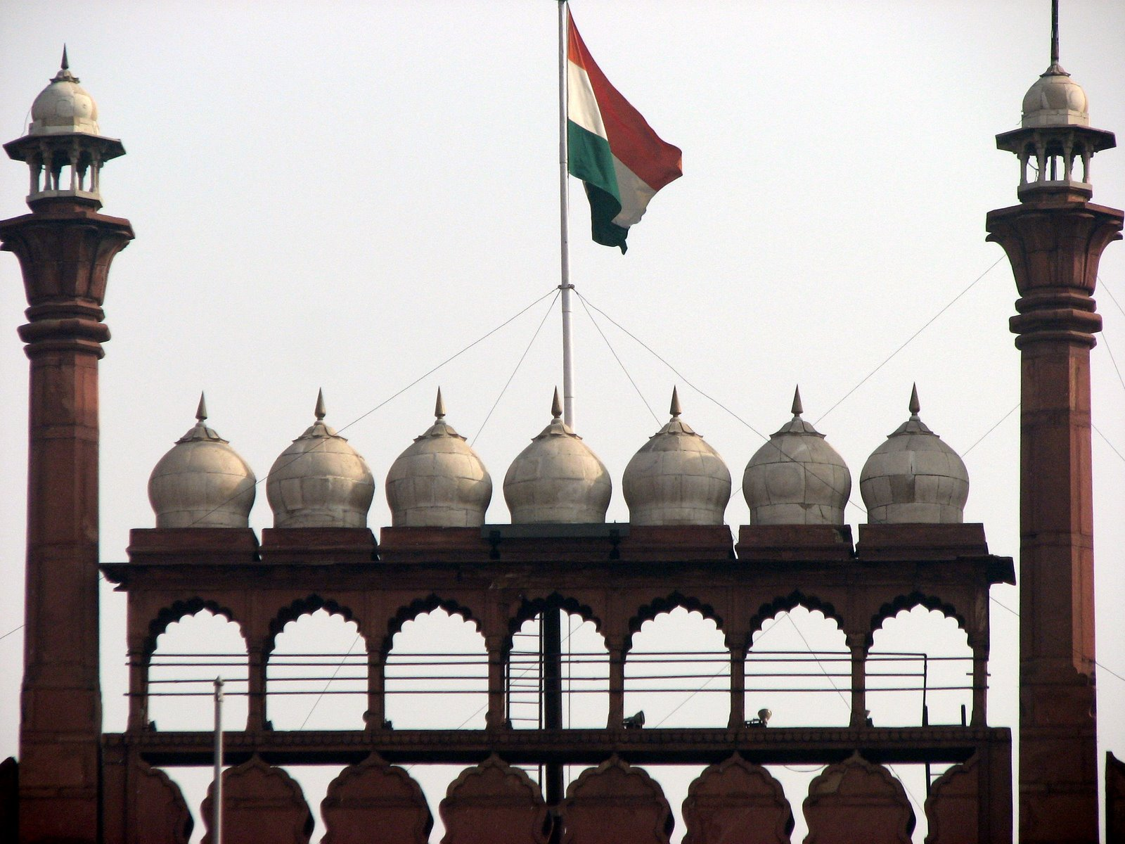 the "red fort", new delhi, india.